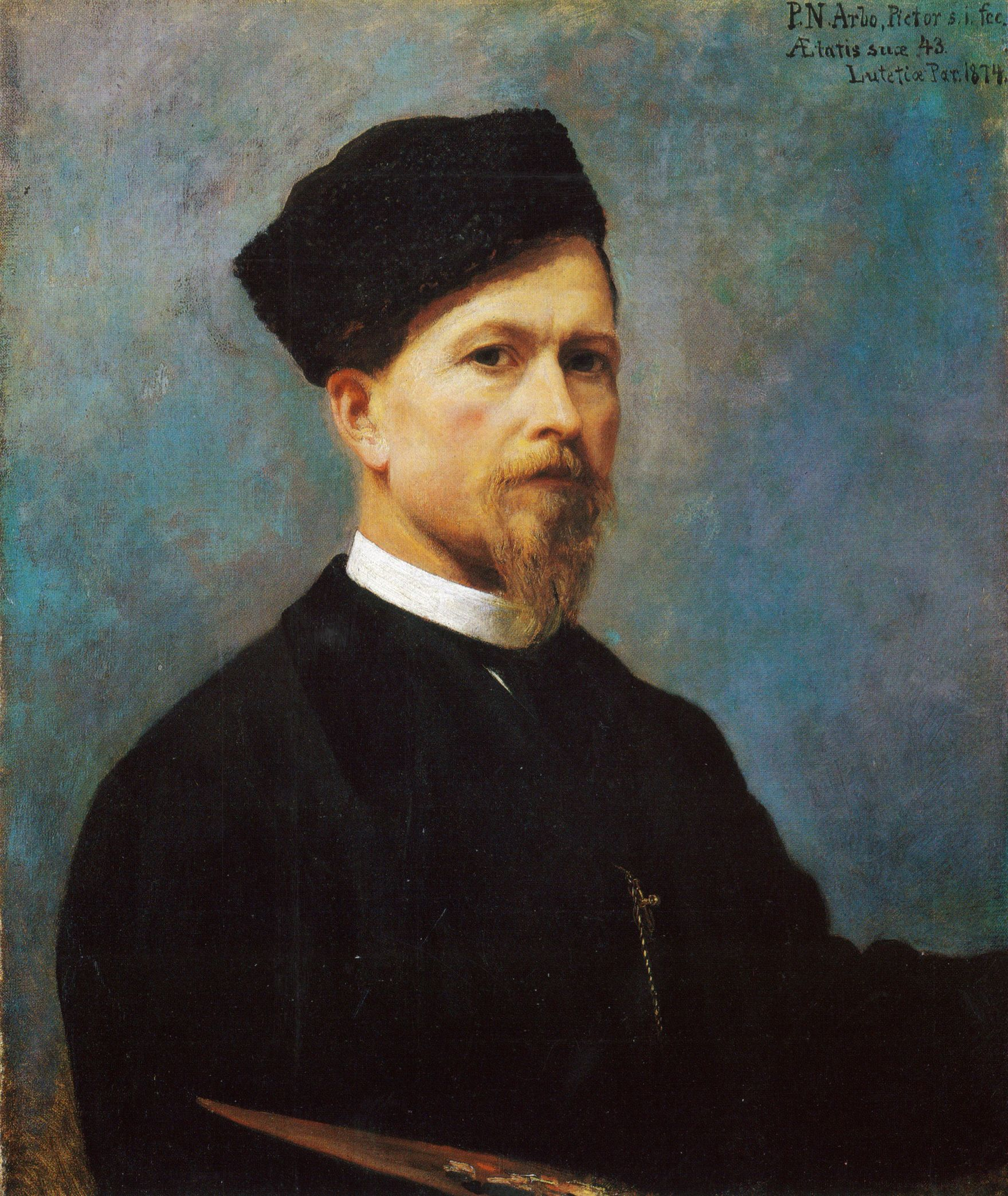 Peter Nicolai Arbo (June 18, 1831 – October 14, 1892) was a Norwegian painter, who specialized in painting historical motifs and images from Norse mythology. His most famous paintings are Åsgårdsreien (1872) and Valkyrien (1865). He actually made two very similar valkyrie paintings.